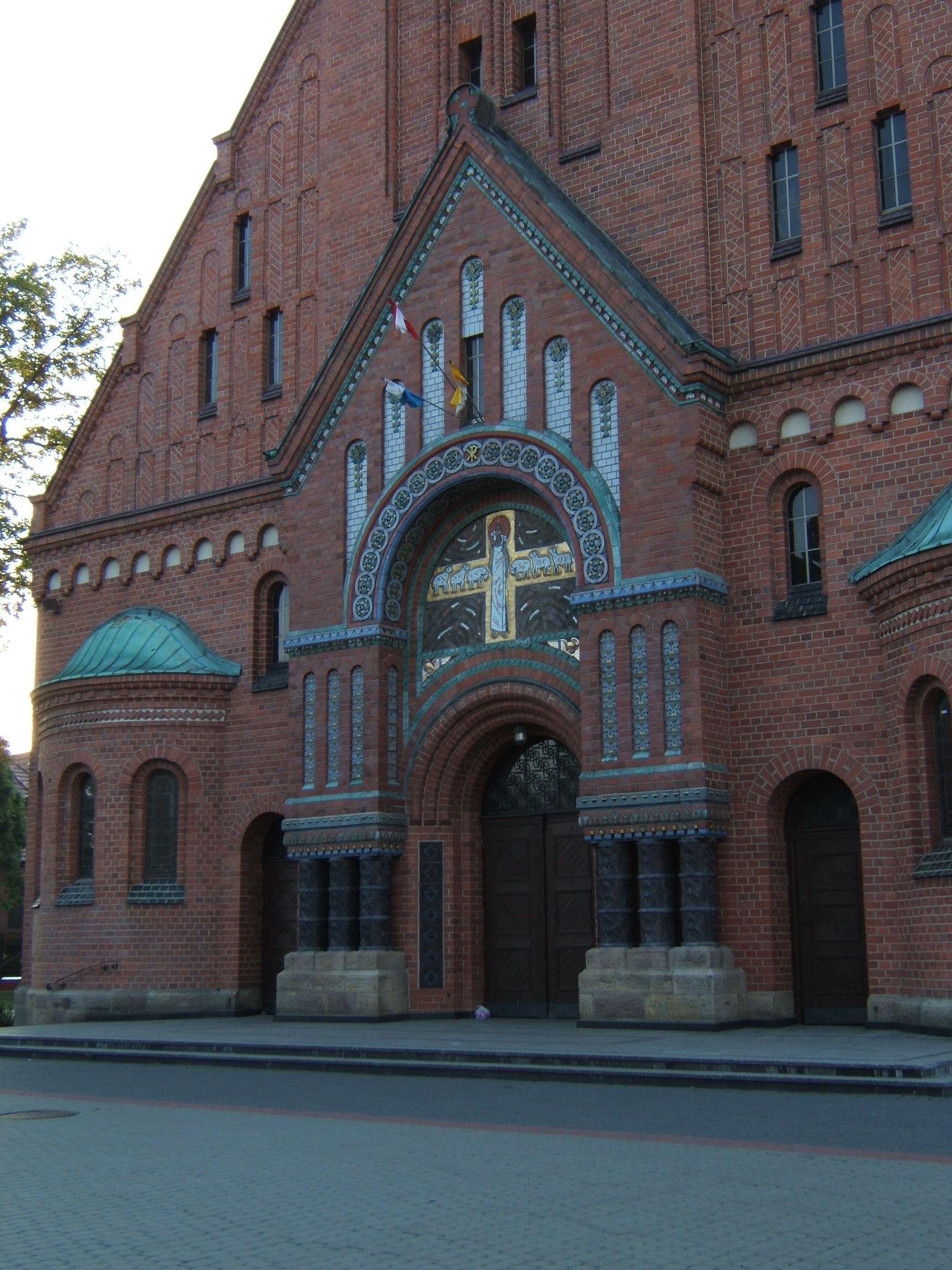 Portal and entrance to church in Bobrowniki Śląskie